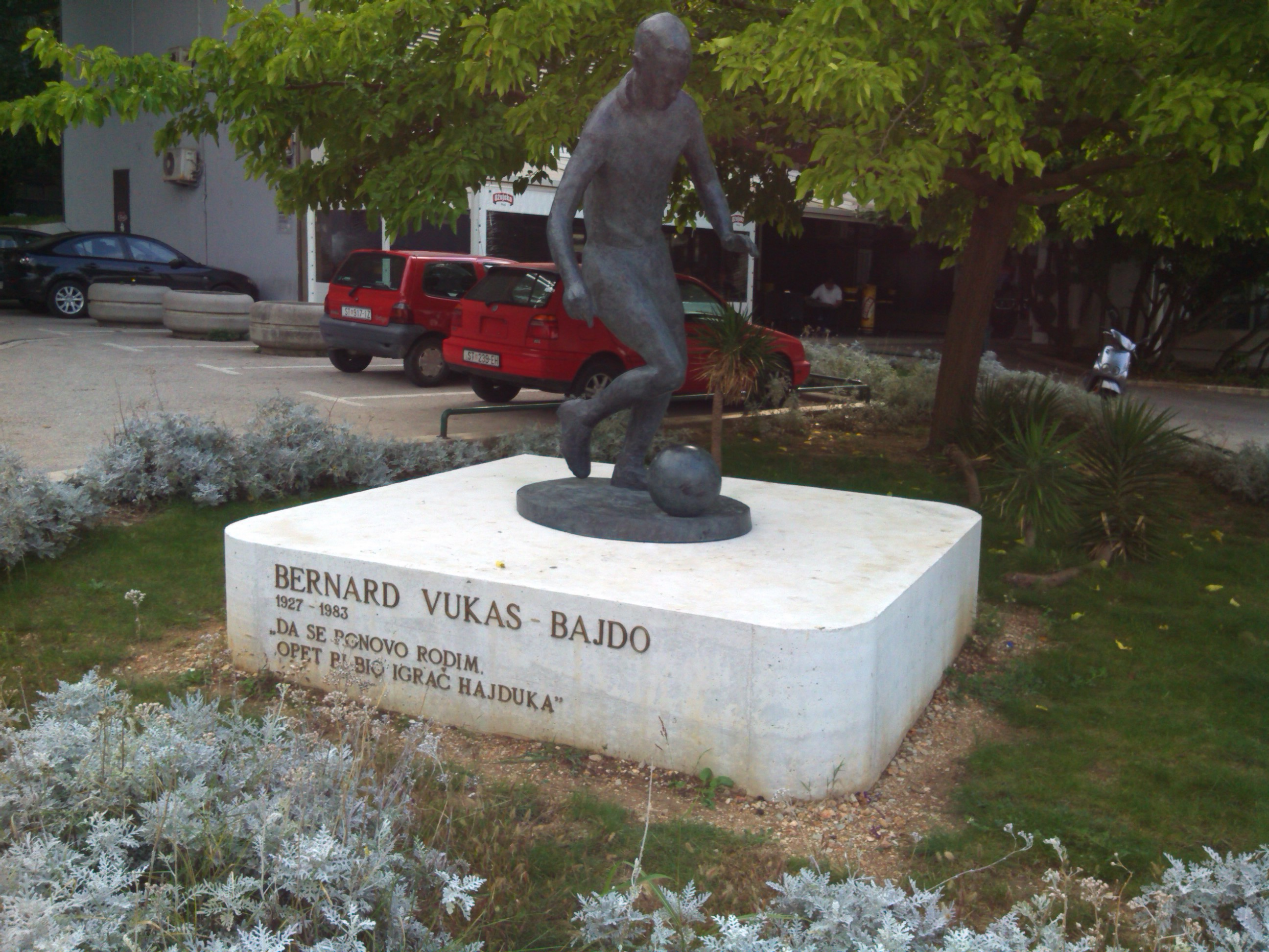 Statue of Bernard Vukas, next to the Poljud stadium , Split